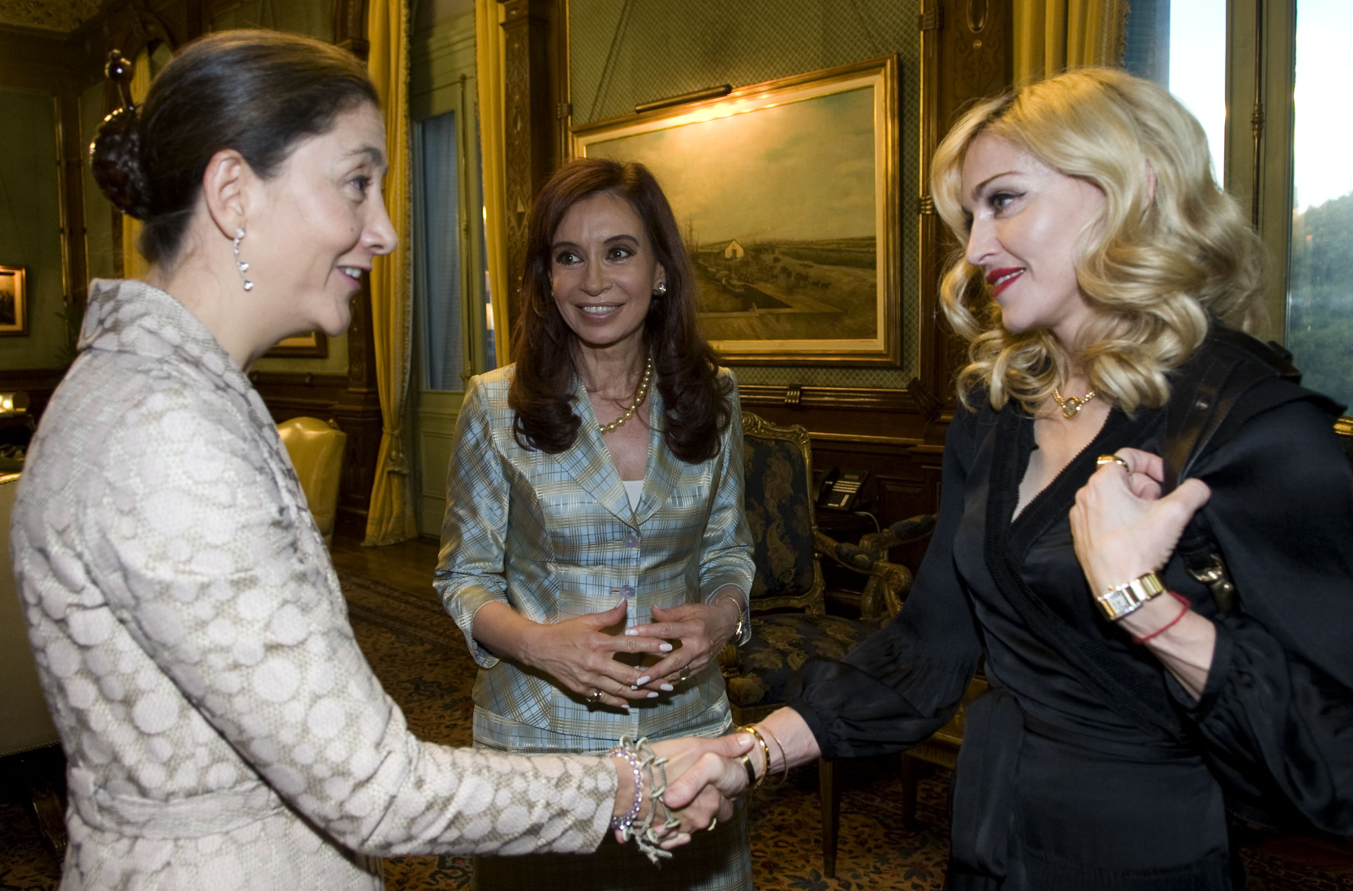 Singer Madonna, Former FARC hostage Íngrid Betancourt and President of Argentina Cristina Fernández de Kirchner.